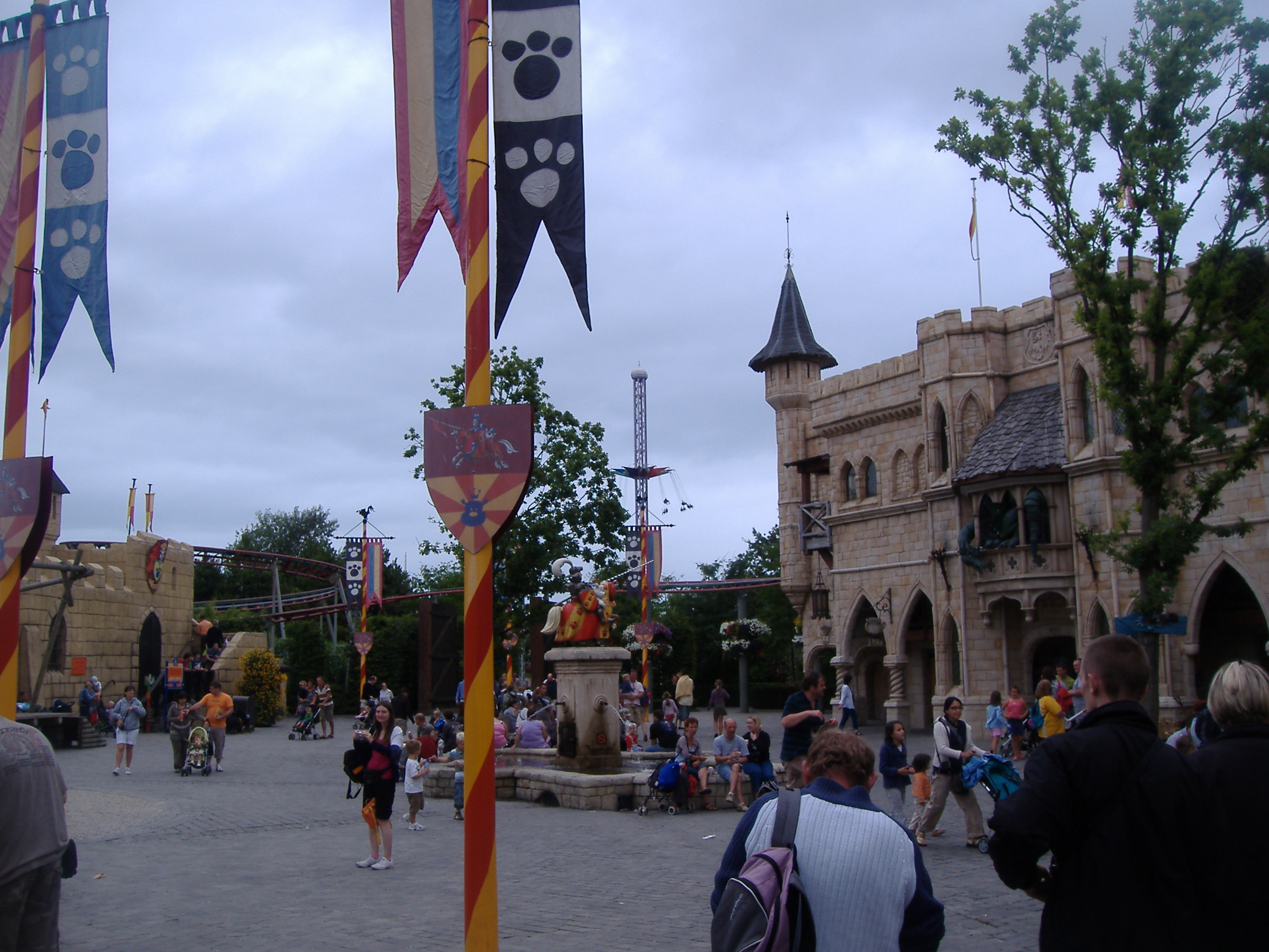 Plopsaland